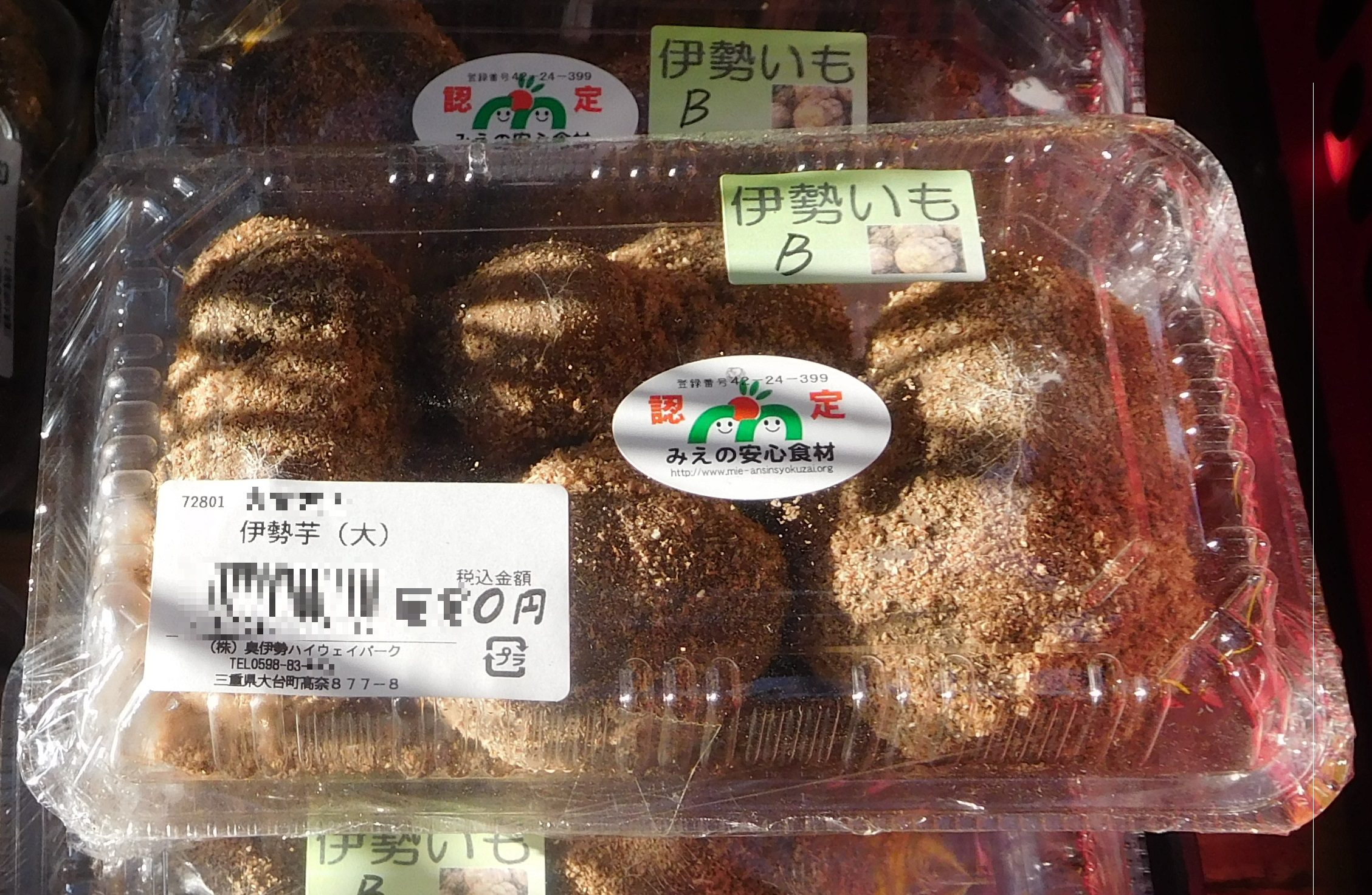 Ise-Imo or Ise Tuber at Okuise Parking Area, Odai, Mie, Japan.